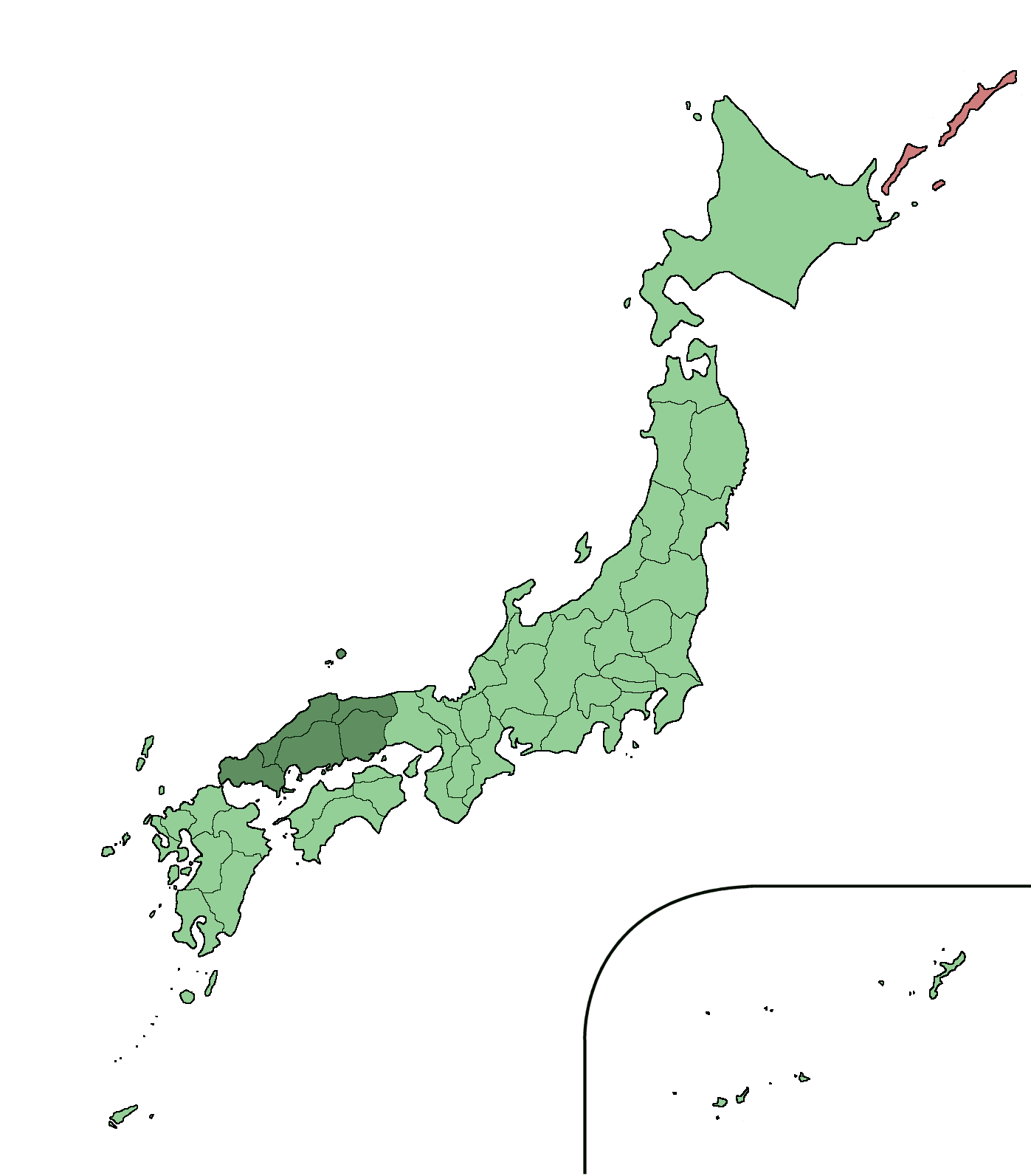 Large size map of Japan with Chugoku Region highlighted, self made but originally based on a japanese mapbook.